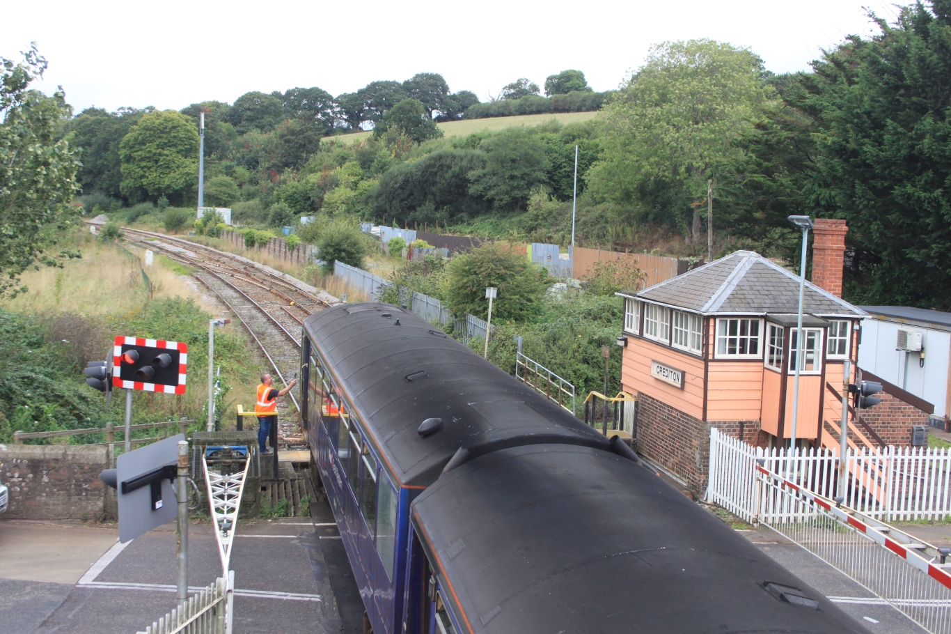 The signaller at Crediton hands the token to the driver of 'Pacer' 143611 so that the train can continue safely on its journey towards Barnstaple.